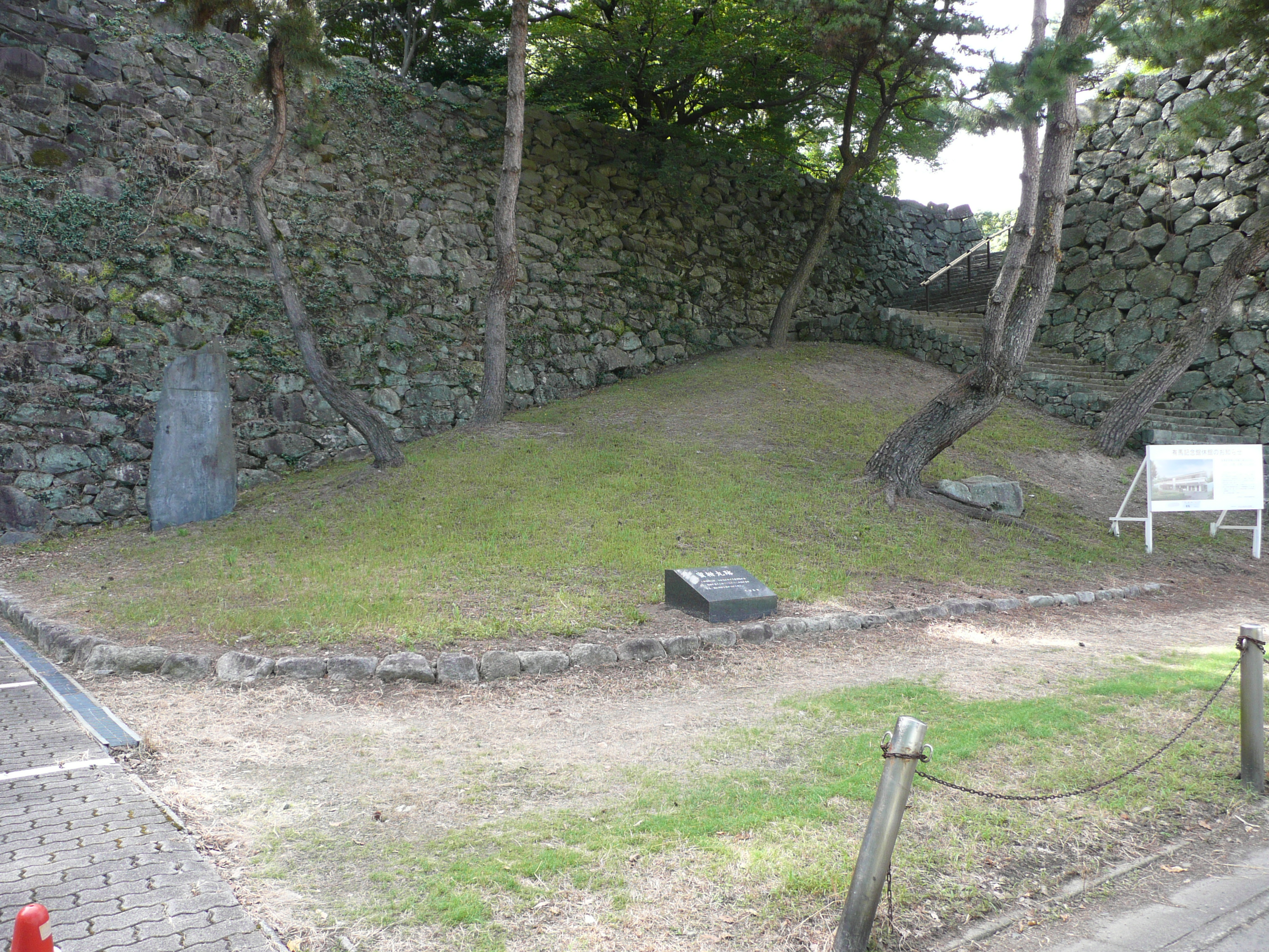 久留米城の蜜柑丸